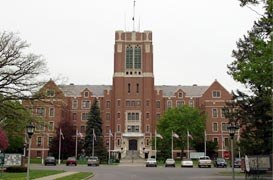 Canandaigua VA Medical Center, Department of Veteran's Affairs